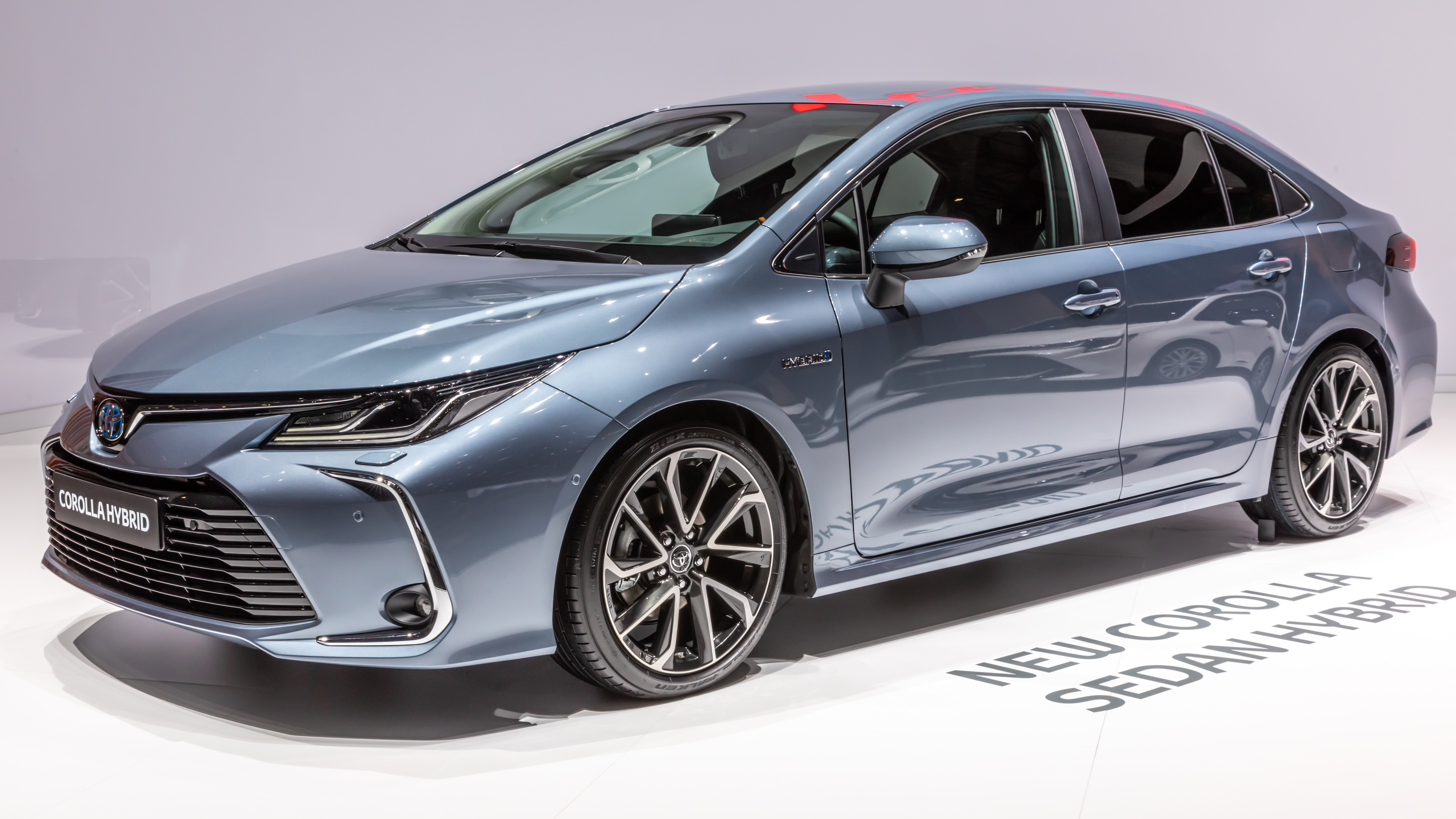 Toyota Corolla Hybrid Sedan at Geneva International Motor Show 2019, Le Grand-Saconnex